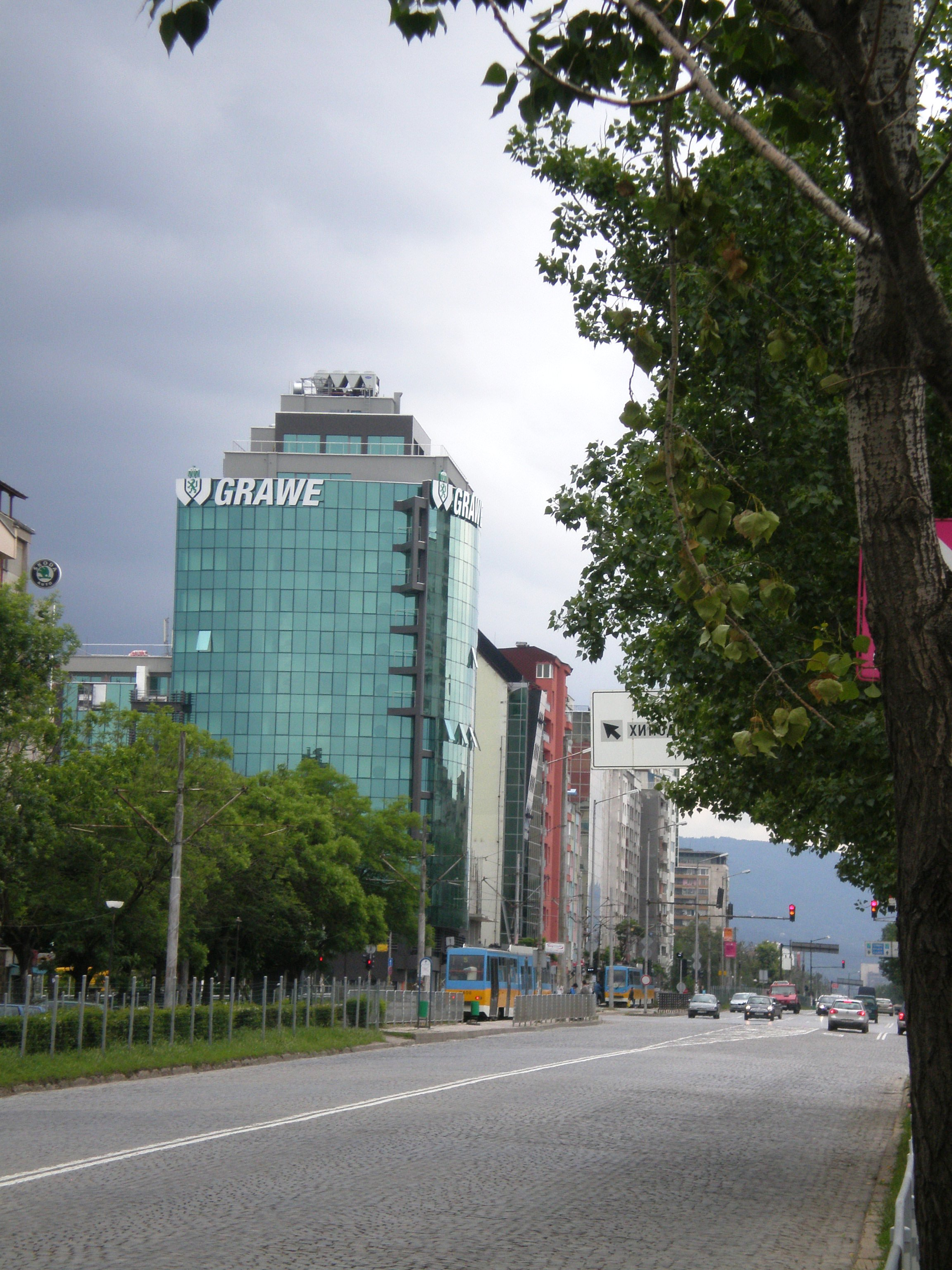 Tsar Boris III boulevard - Sofia, Bulgaria